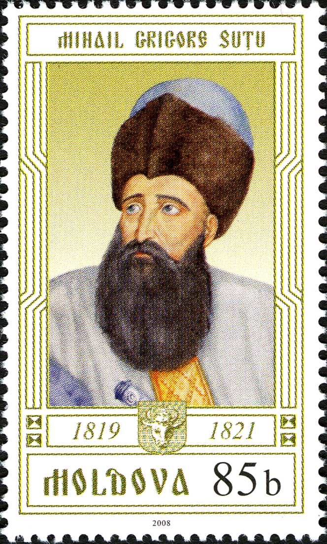 Stamp of Moldova